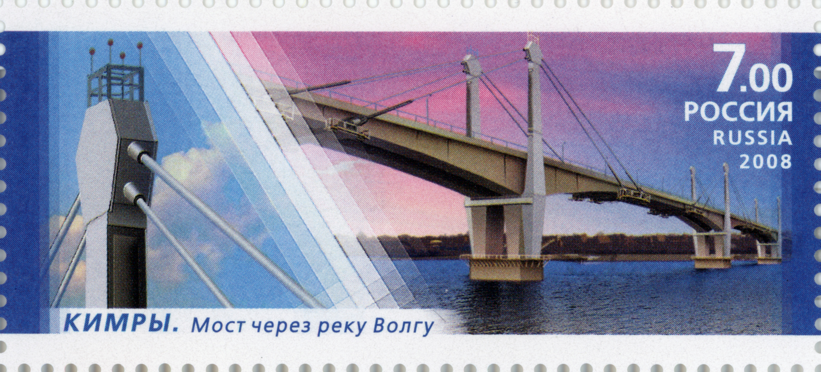 Postage stamp of Russia. 2008. Cable-braced bridges. Kimry. Bridge over Volga river.